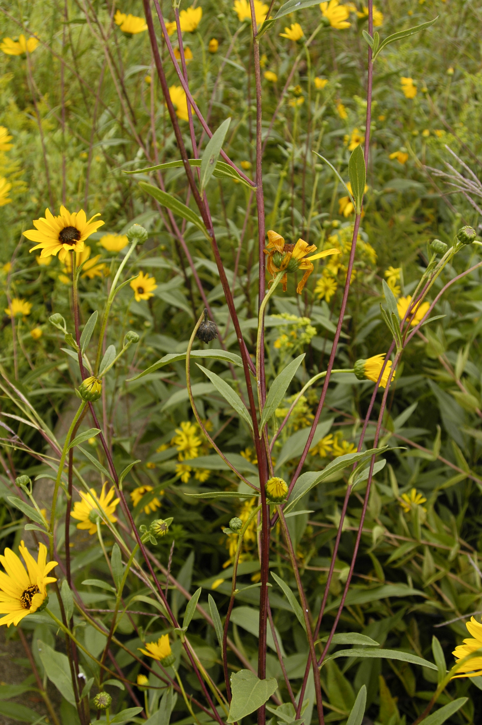 field image of Helianthus rigidus PRAIRIE SUNFLOWER at the James Woodworth Prairie Preserve - a small stand at full bloom